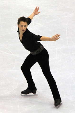 Shawn Sawyer at the 2009 Skate America.